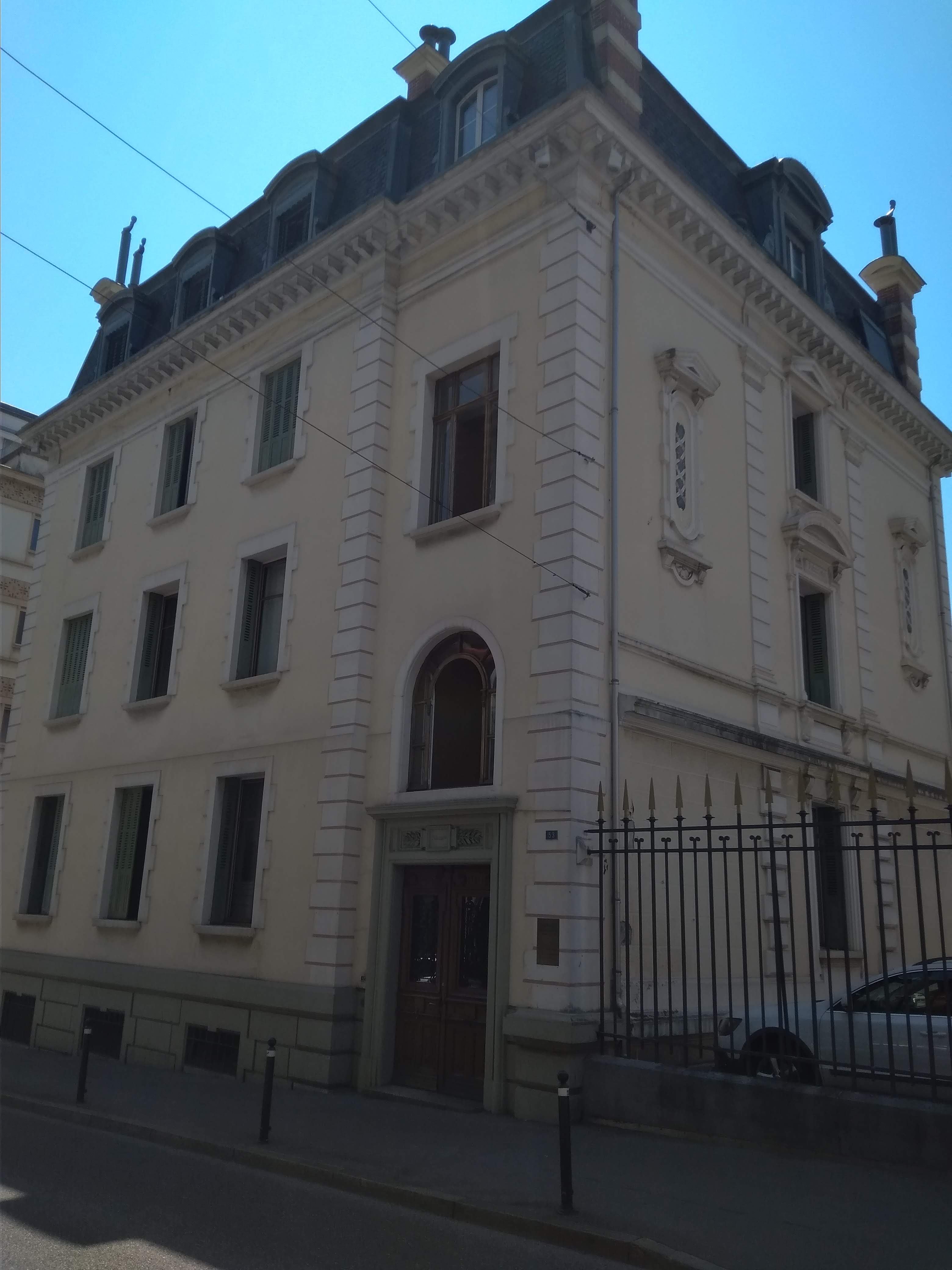 My photo of the last place of the great Rabbi